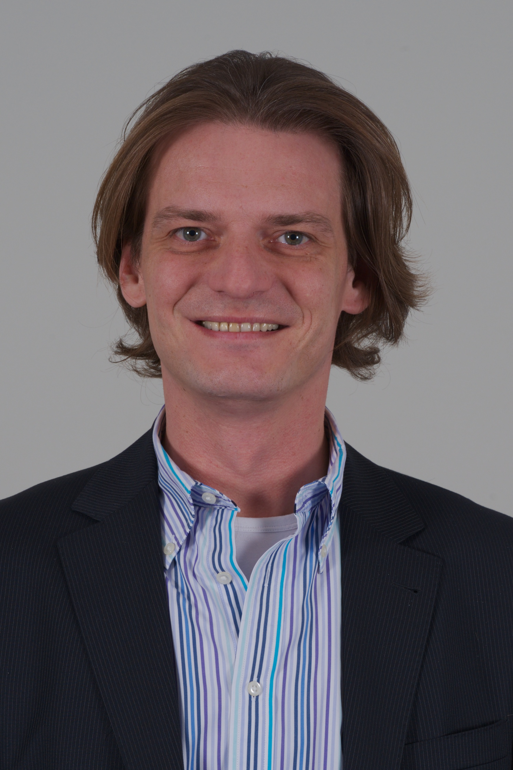 Wikipedia im Landtag – Sachsen-Anhalt 13./14. Dezember 2012 in MagdeburgDieses Foto wurde im Rahmen des Projektes „Wikipedia im Landtag“ erstellt. The making of this document was supported by the Community-Budget of Wikimedia Germany. The making of this work was supported by Wikimedia Austria. For other files made with the support of Wikimedia Austria, please see the category Supported by Wikimedia Österreich. Personality rights warningAlthough this work is freely licensed or in the public domain, the person(s) shown may have rights that legally restrict certain re-uses unless those depicted consent to such uses. In these cases, a model release or other evidence of consent could protect you from infringement claims.